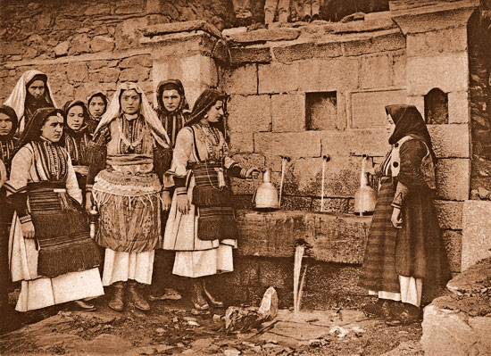 Group of women in folk costumes in Galičnik, Republic of Macedonia